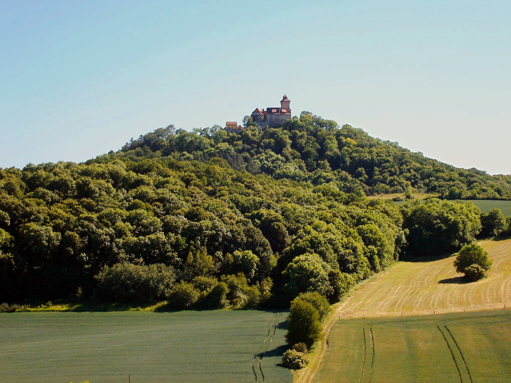 Wachsenburg castle in Thuringia from the north